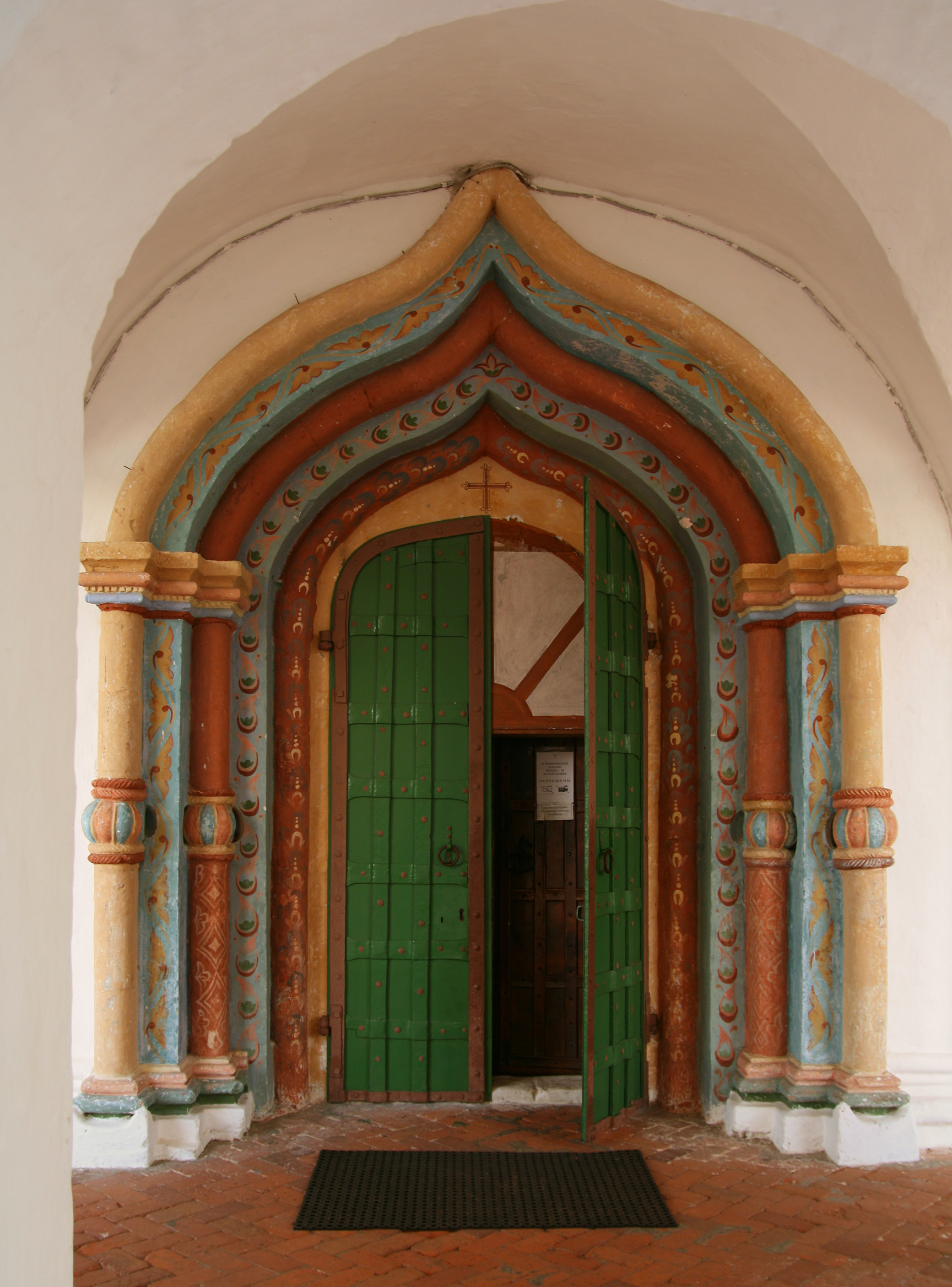 Portal of Church of the Protection of the Theotokos, Pokrovsky Monastery in Suzdal